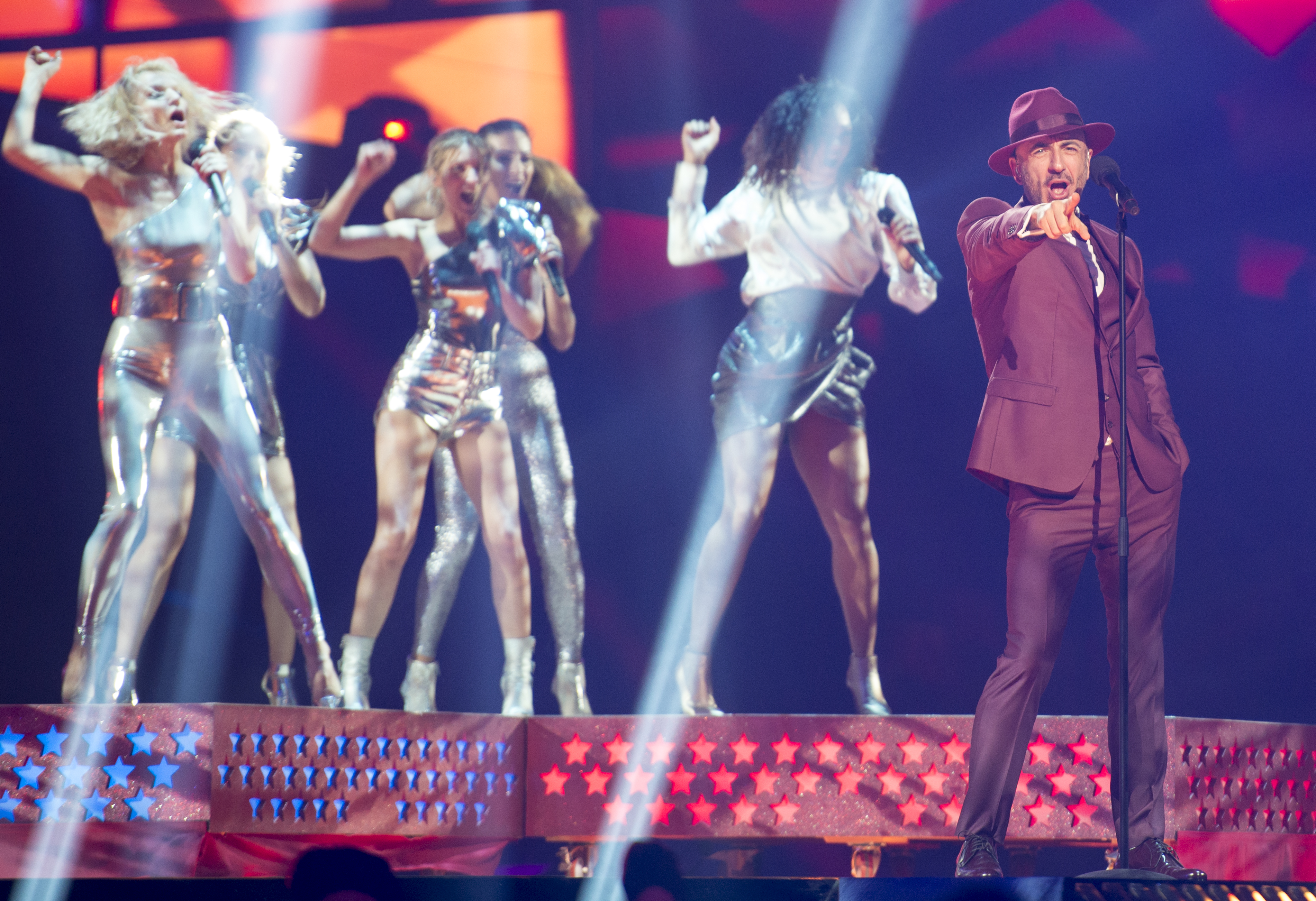 Serhat representing San Marino with the song "I Didn't Know" during a rehearsal before the first semi final of the Eurovision Song Contest 2016 in Stockholm. (Help translate this text)